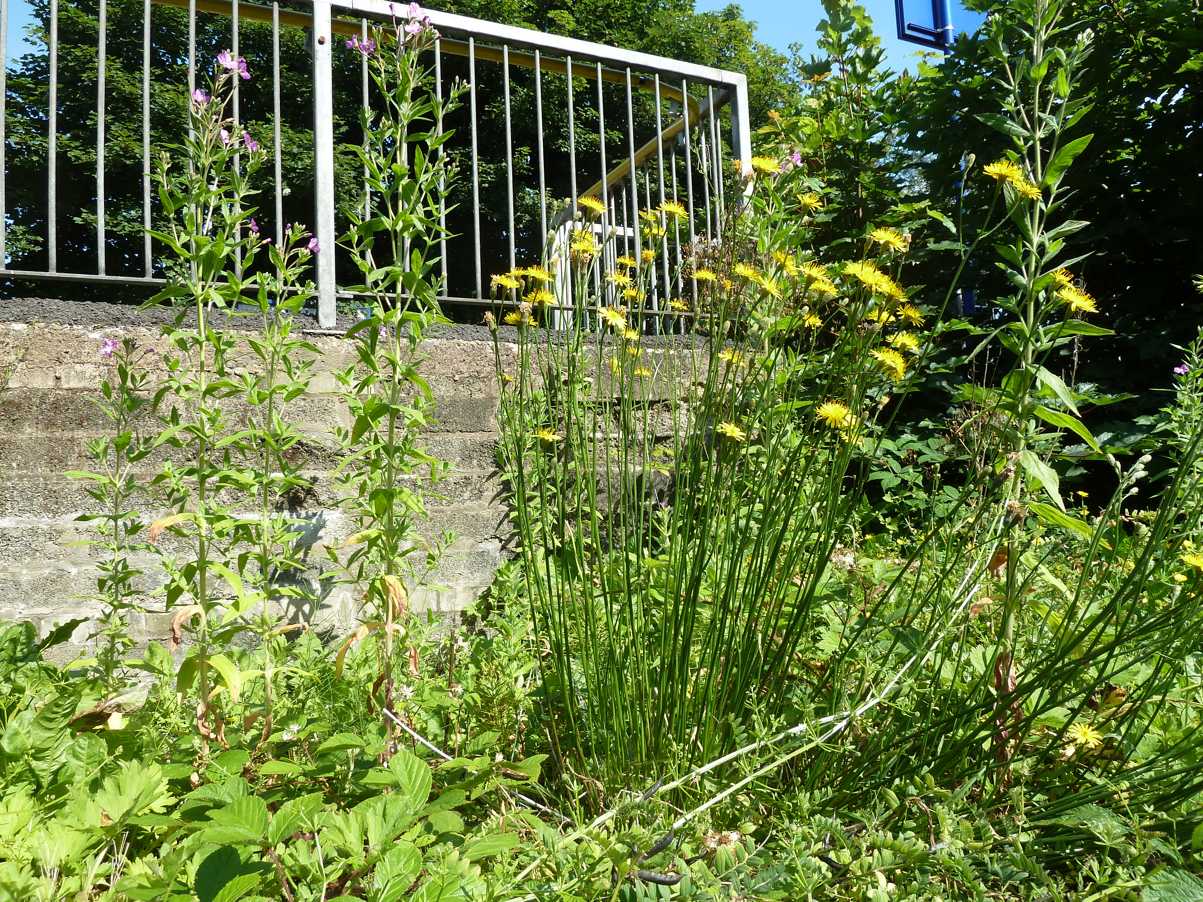 Hilden, Co. Antrim, Ireland. July 213 provisional ident. Hypochaeris radicata Epilobium hirsutum